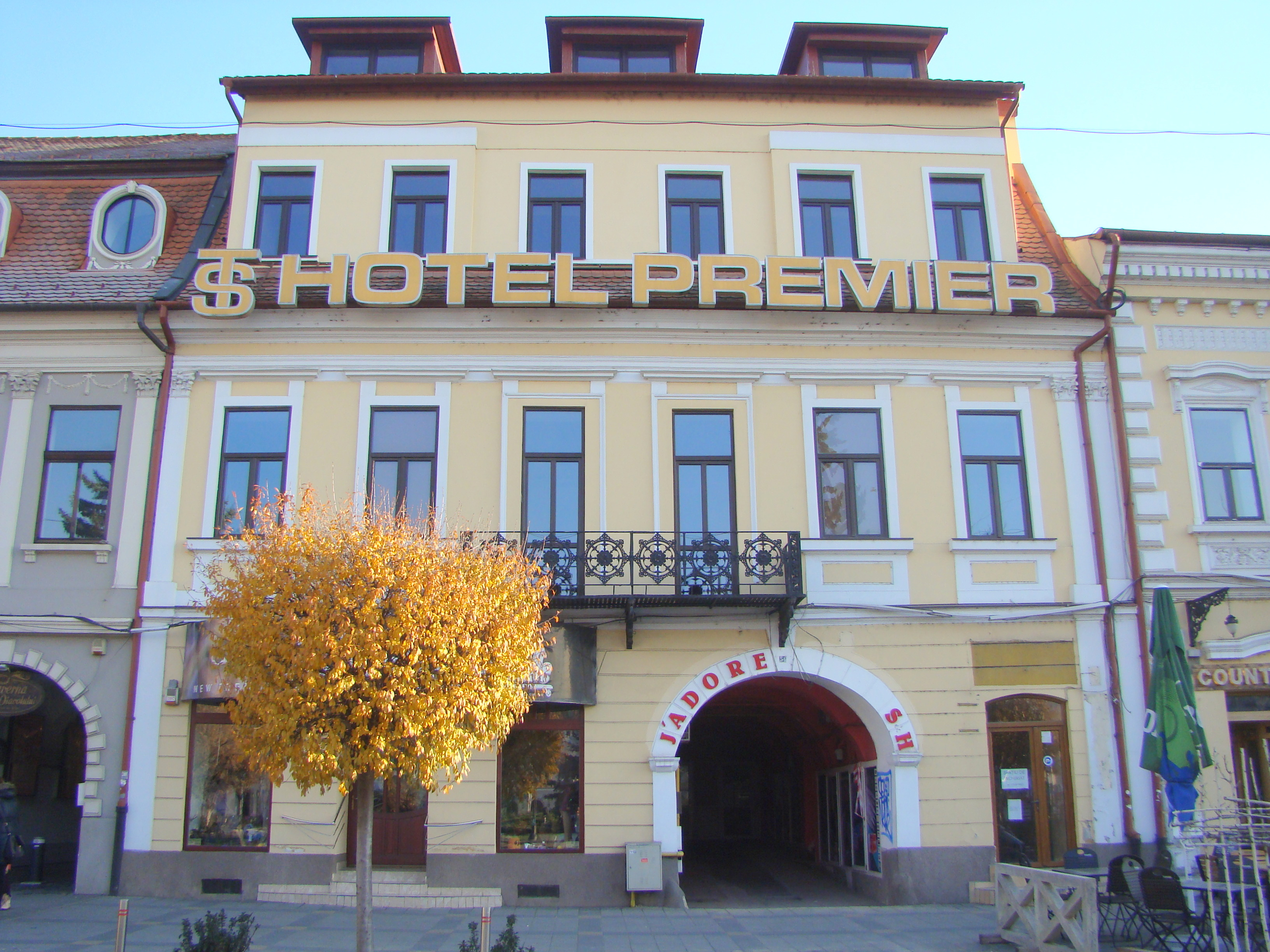 House, historic monument, in Târgu Mureș, Piața Trandafirilor 54